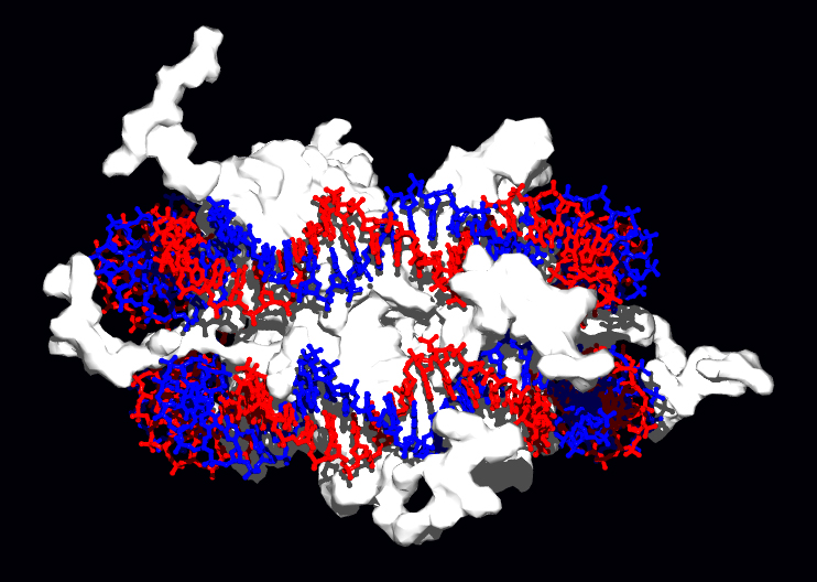 Image of a nucleosome. Molecular surface of histones is shown in white and the two strands of DNA in red and blue I am author, created from PDB 1EQZ